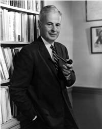 Lincoln Gordon